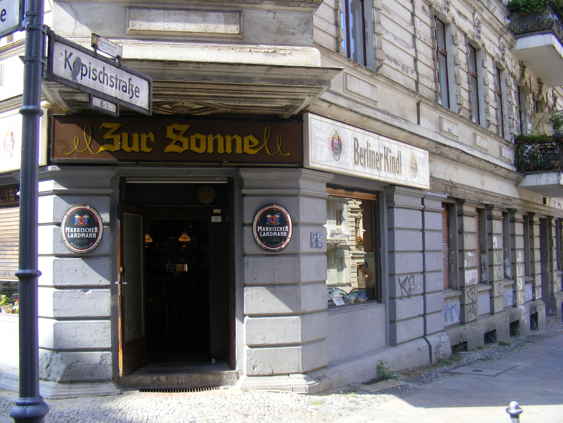 The photo from August 2009 shows the former corner bar "Zur Sonne" in Berlin-Kreuzberg, which was located in the apartment building Fidicinstraße 38-38A, at the corner Kopischstraße 6 (right). The house was built in 1889 by Carl Jung and L. Dolz. It is part of the listed building ensemble Chamissoplatz. (Condition in April 2012: In the meantime, a facade renovation took place while the pub was abandoned and the corner remises were empty.